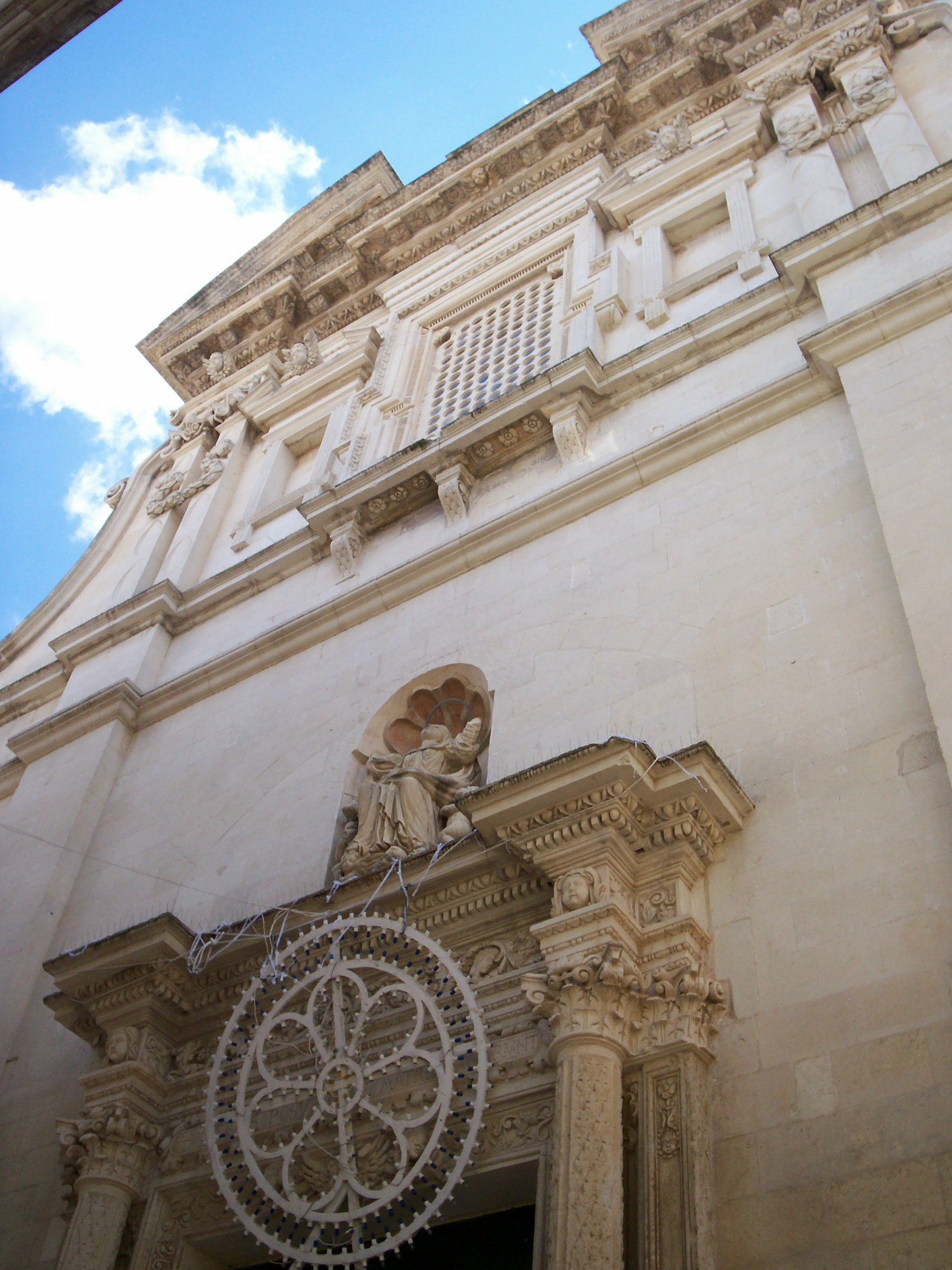 Church of the Mother of the Assumption in Martano, province of Lecce - Apulia (Italy)